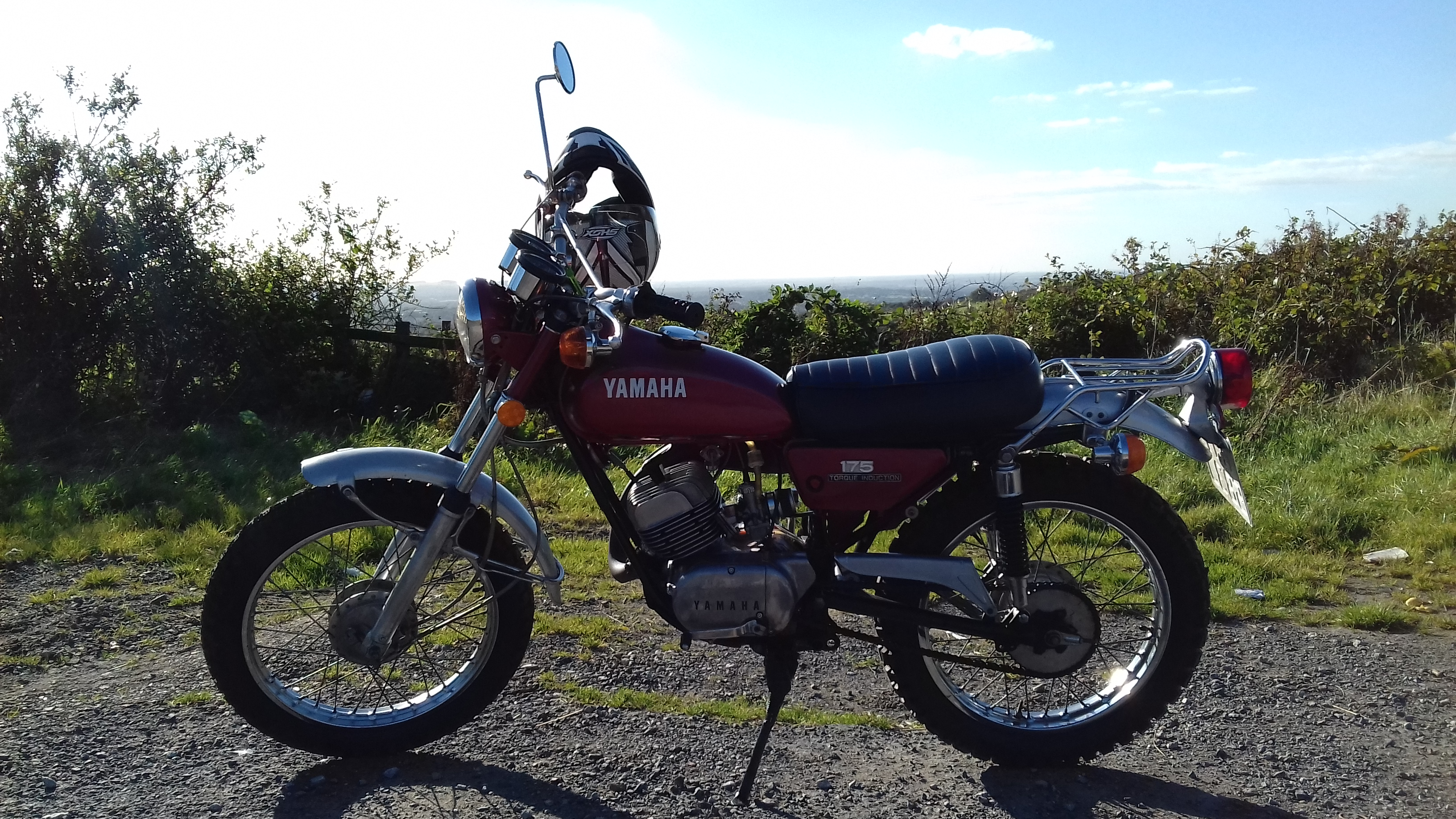 Yamaha CT2 1972. Note: Indicators and seat cover not original.